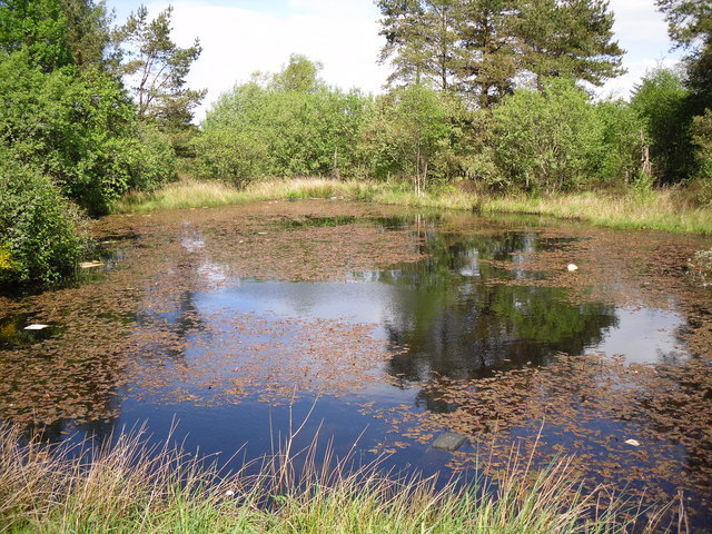 Small Pond on Fannyside Road, Cumbernauld